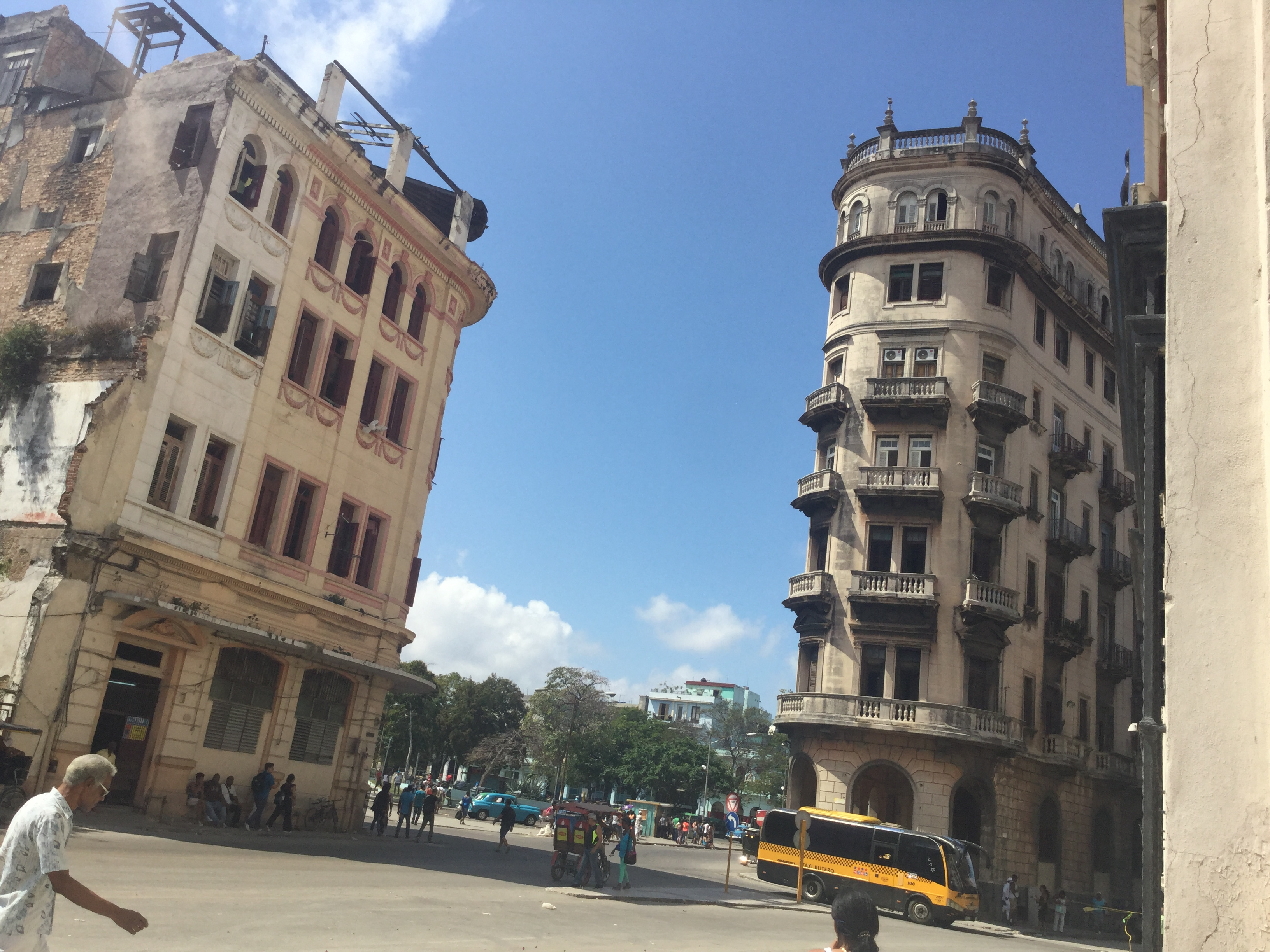 Parque El Curita.Dragones, Aguila. Havana